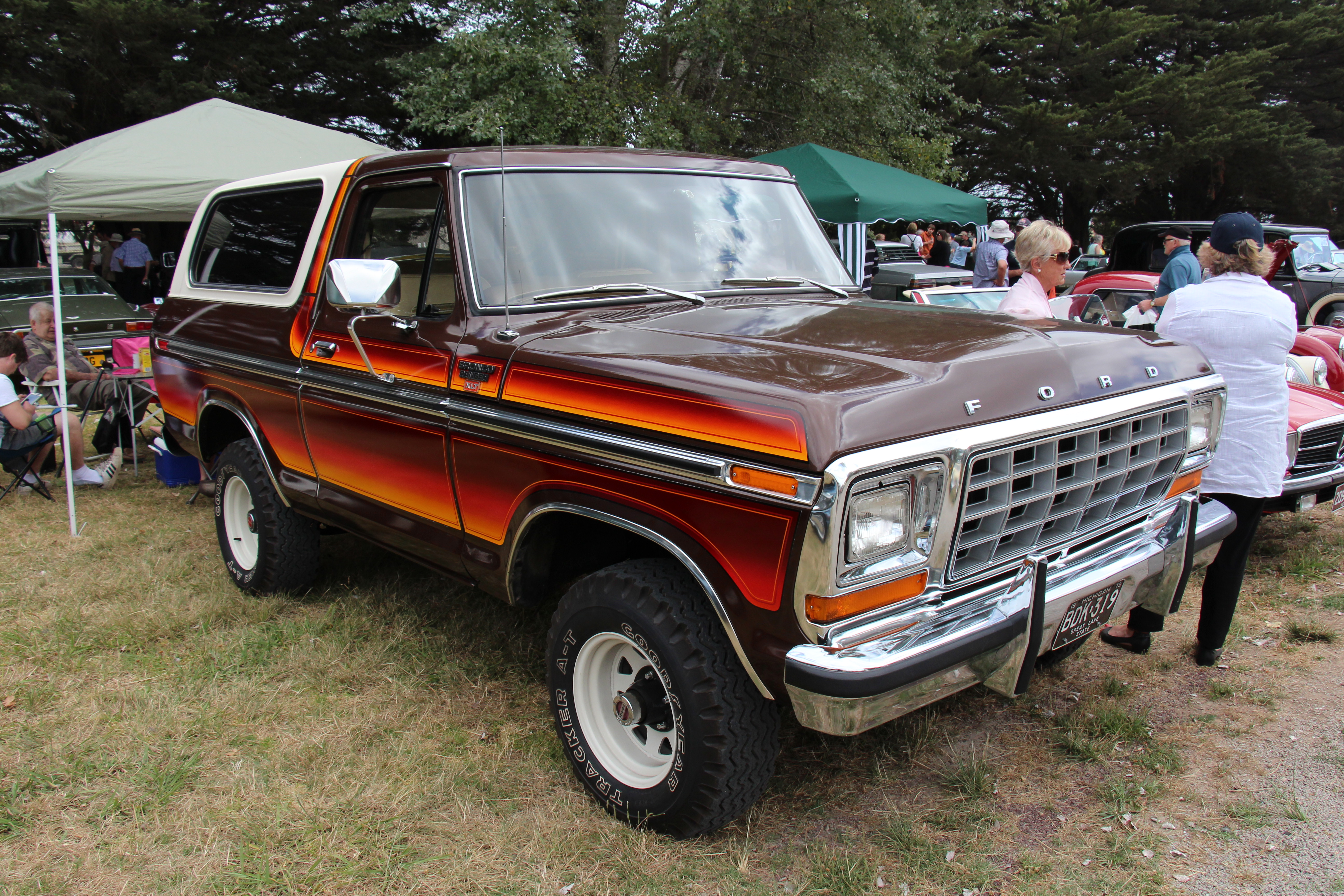 The 2nd generation (1978-79) Bronco was based on a shortened 6th generation F100, the entire front clip is indistinguishable, also sharing chassis and driveline. It had a removable top and forward folding rear bench seat. For 1978, Broncos were equipped with round headlights, with the exception of the Ranger XLT trim model. For 1979, all Broncos came standard with square sealed beam headlights. Engines; 351 or 400 cu in V8s